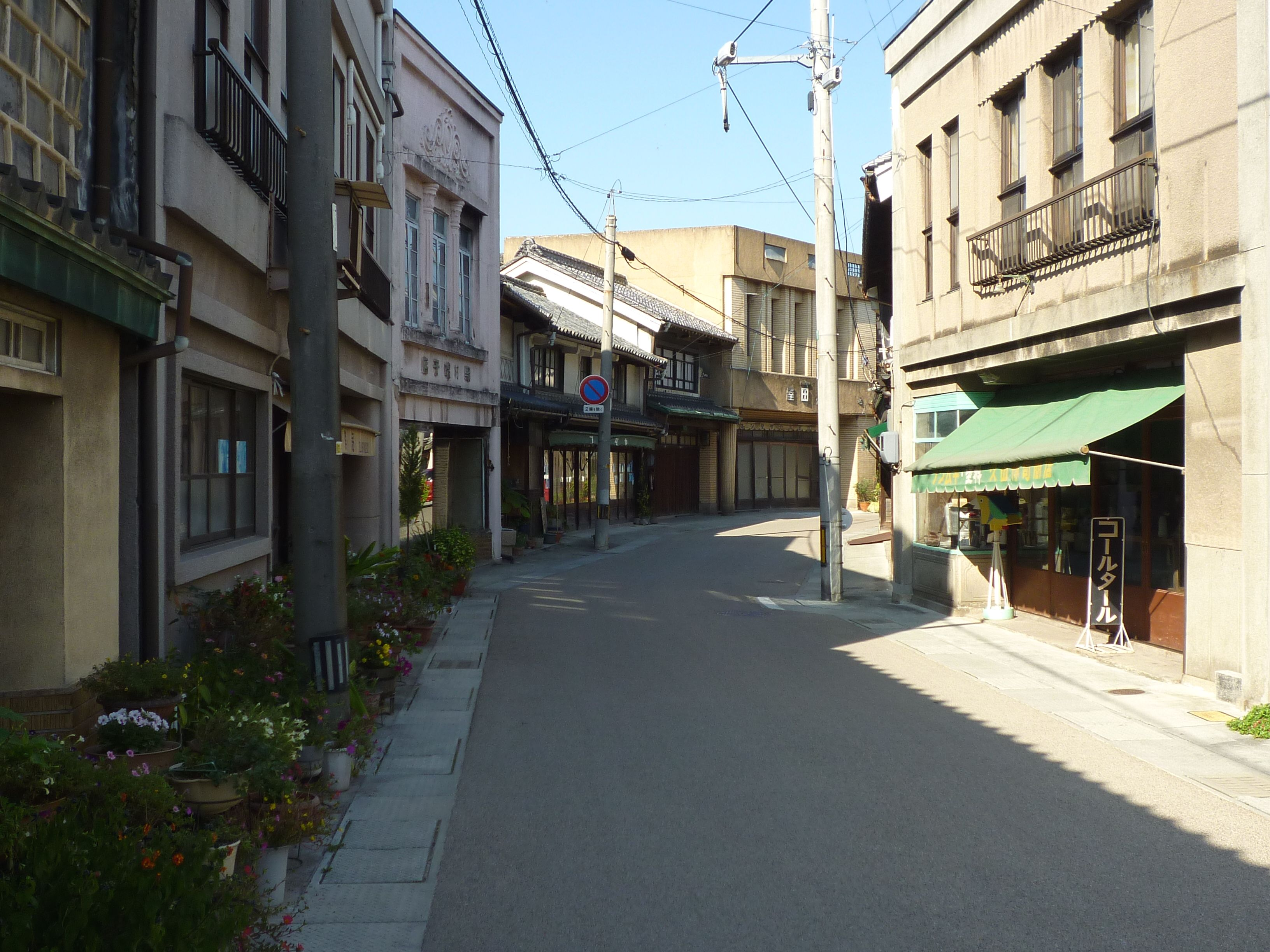 The scenery of Saidaiji gofuku-dori.(Higashi-ku, Okayama City, Okayama Pref, JPN)